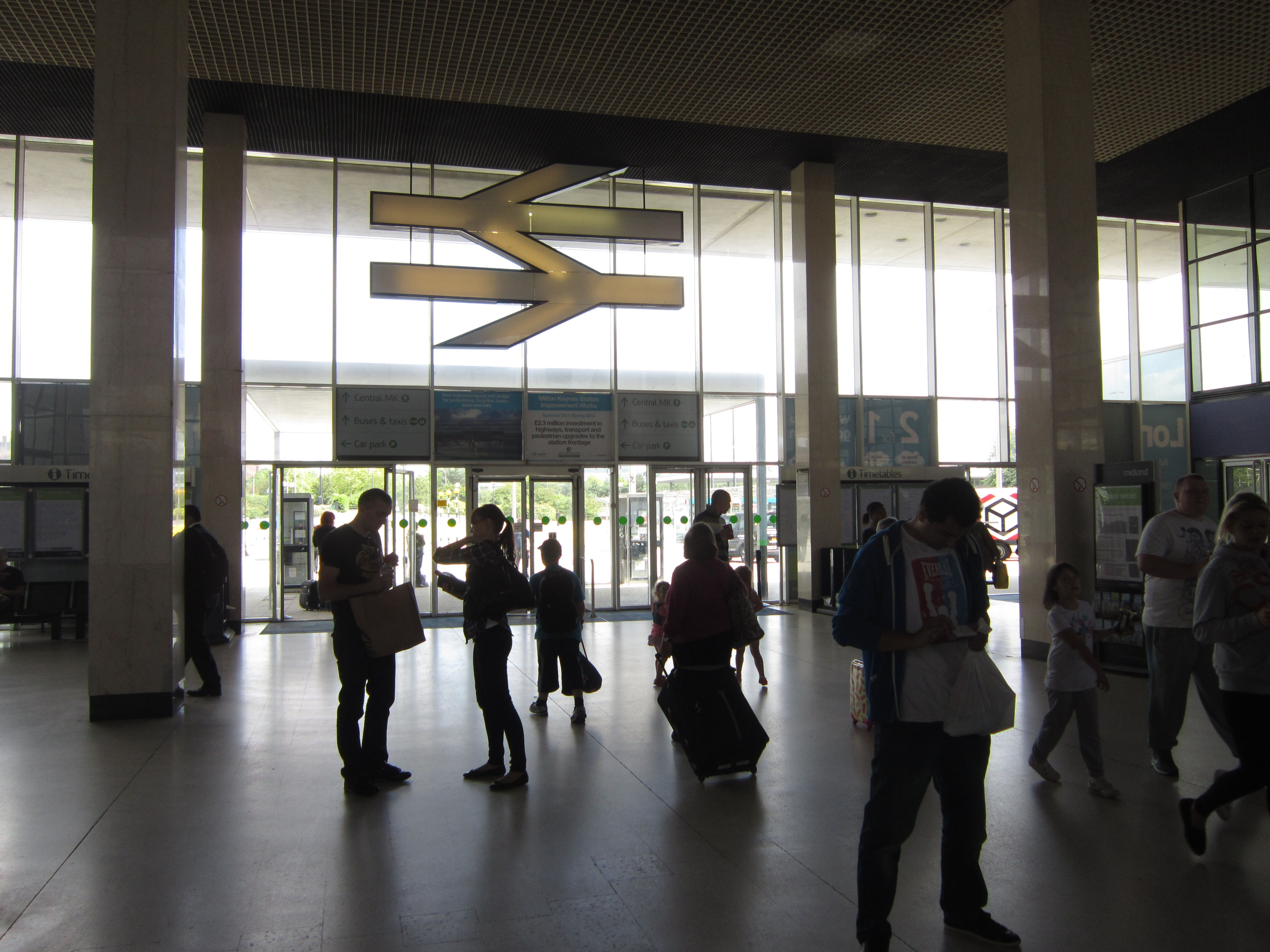 Milton Keynes Central railway station lobby, showing the huge National Rail logo above the entrance